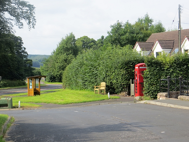 Former telephone box, Crailing